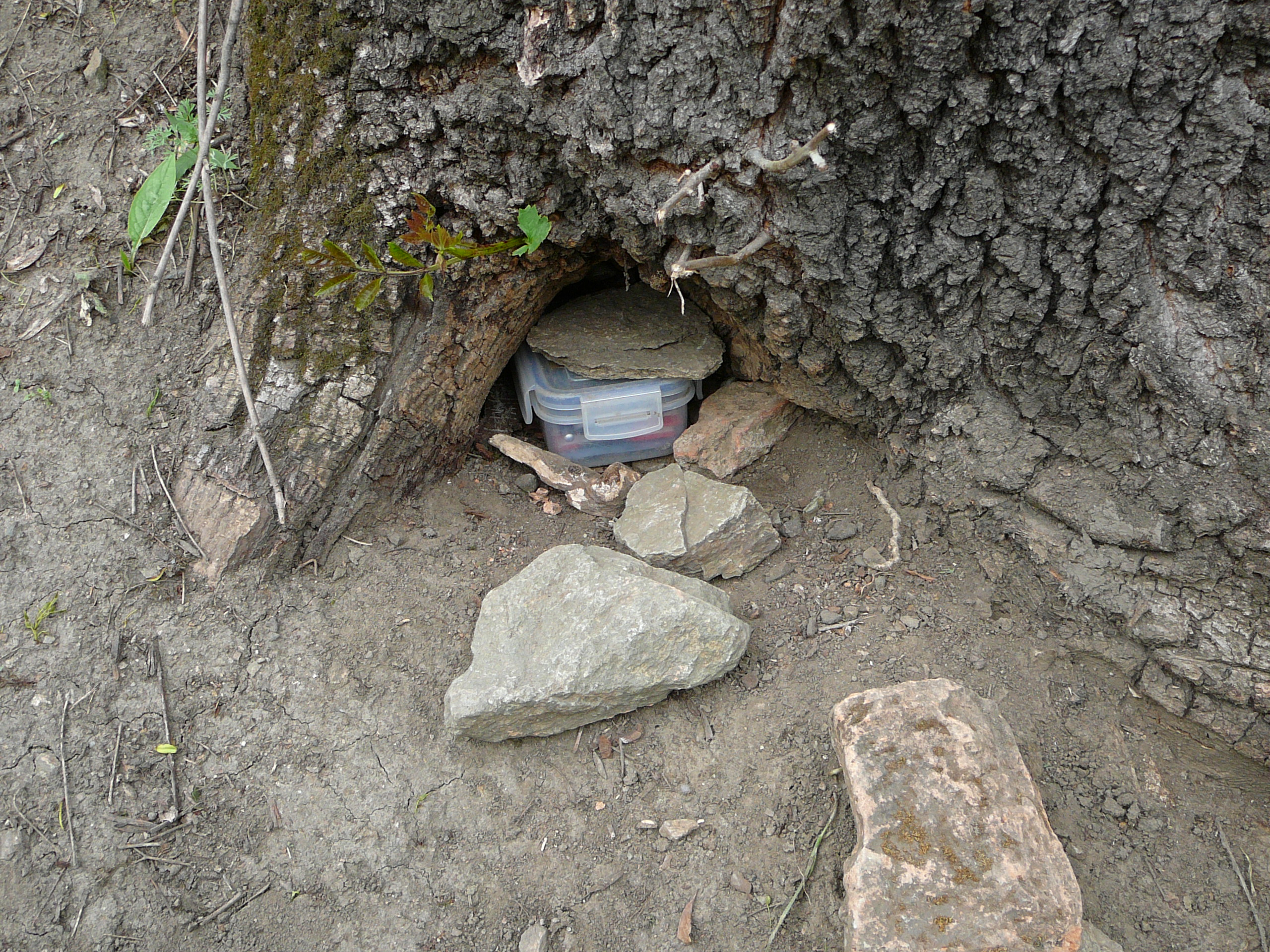 Cache near Špilberk CastleCache link